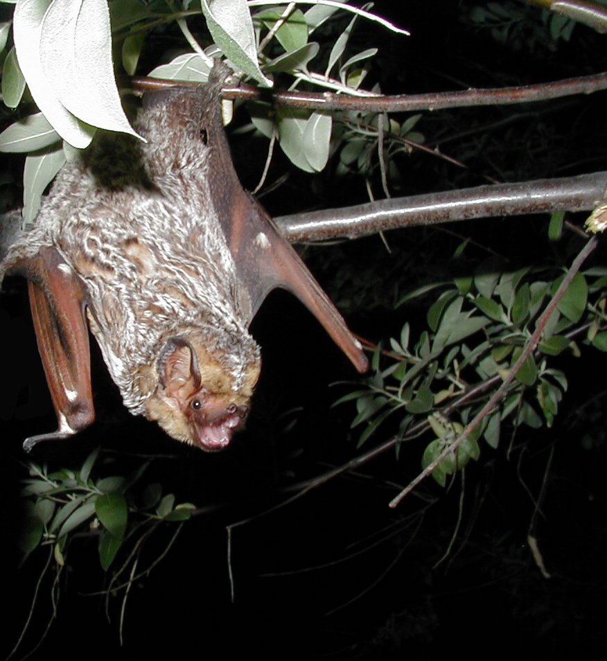 A hoary bat (Lasiurus cinereus) roosting on the branch of a tree.